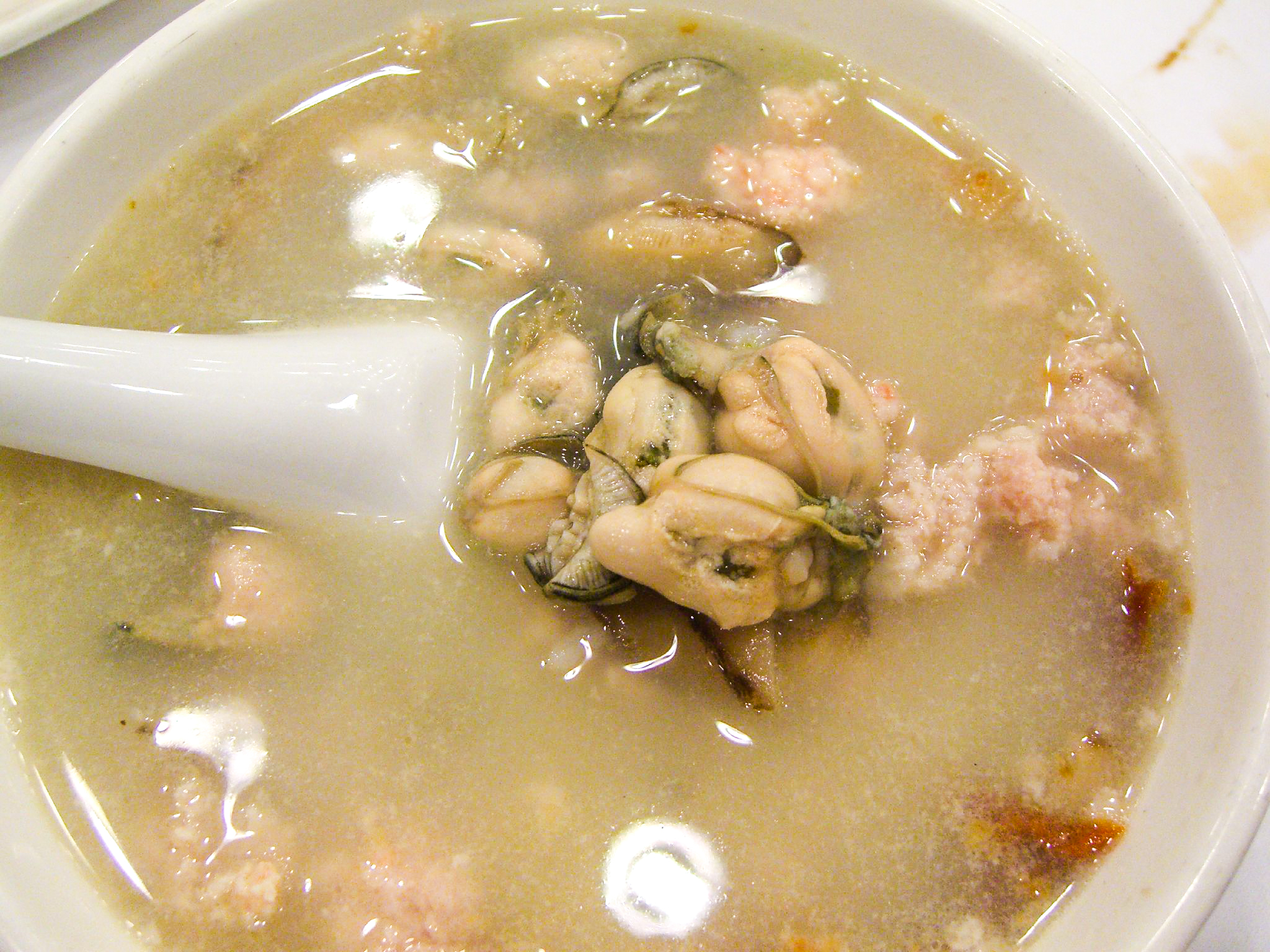 Chiu Chow oyster congee